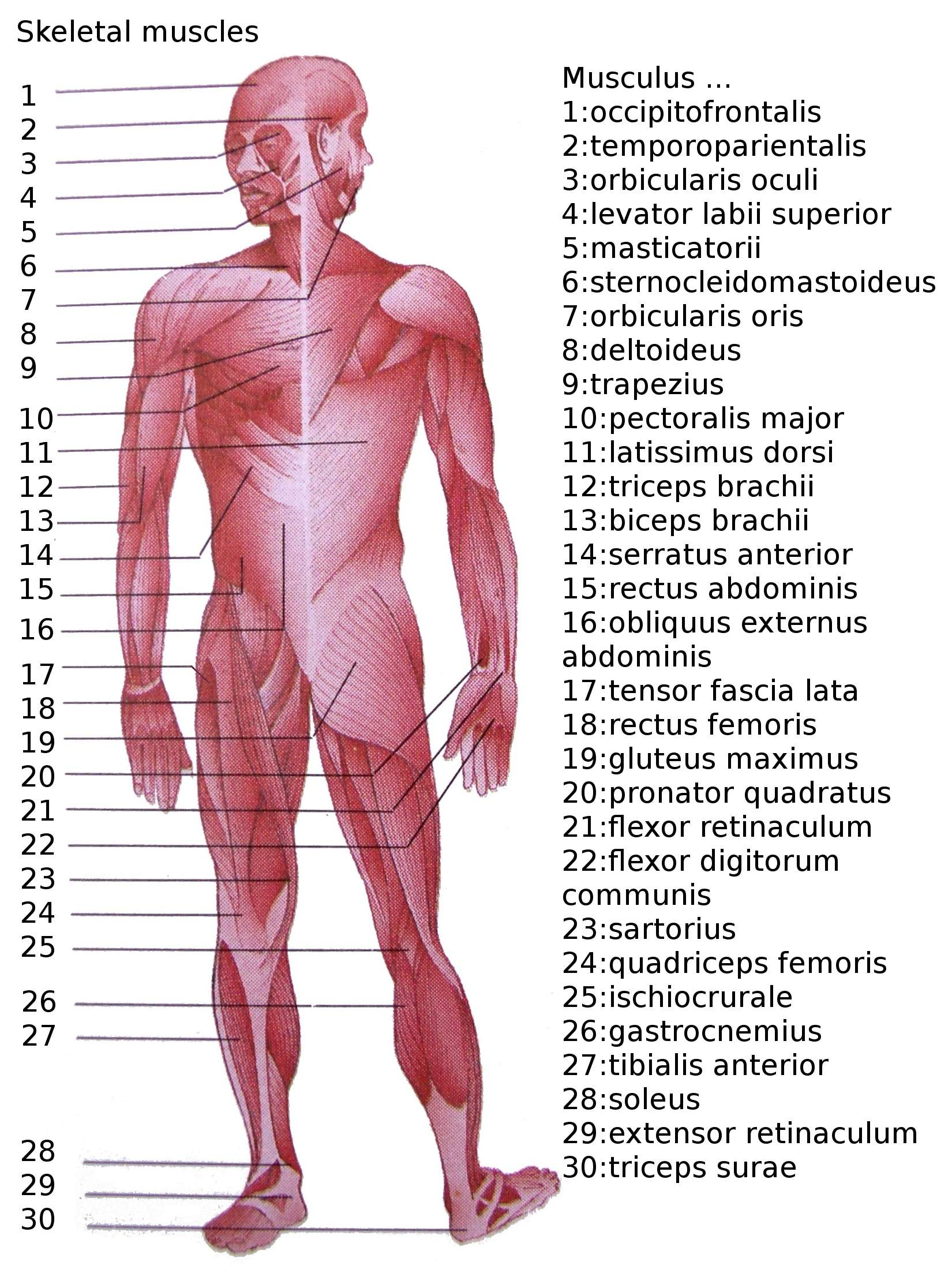 A schematic showing some of the skeletal muscles of a Homo sapiens. The schematic was based on an image in the book "The human body" by Linda Gamlin